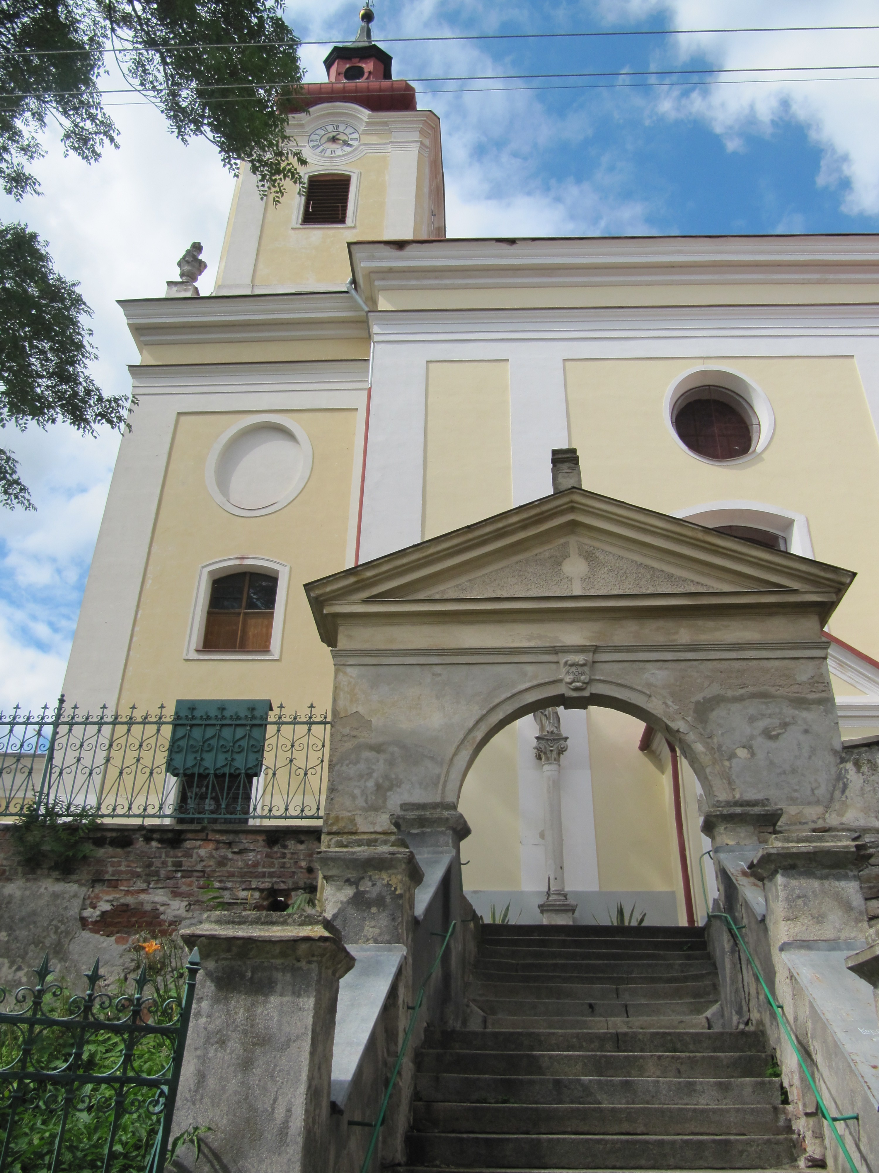 Dyjákovice in Znojmo District, Czech Republic. Gate at the church.